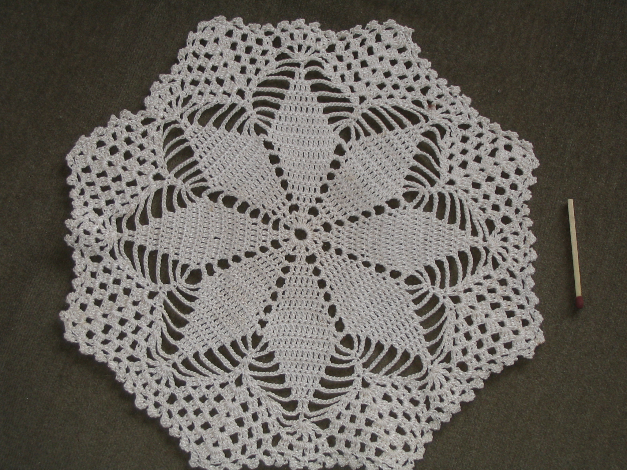 Small crocheted tablecloth with the shape of a star. Made in Sweden about 1930.